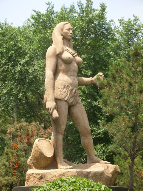 Xinle neolithic female statue, Shenyang, China 瀋陽新樂遺址先民(女姓)像